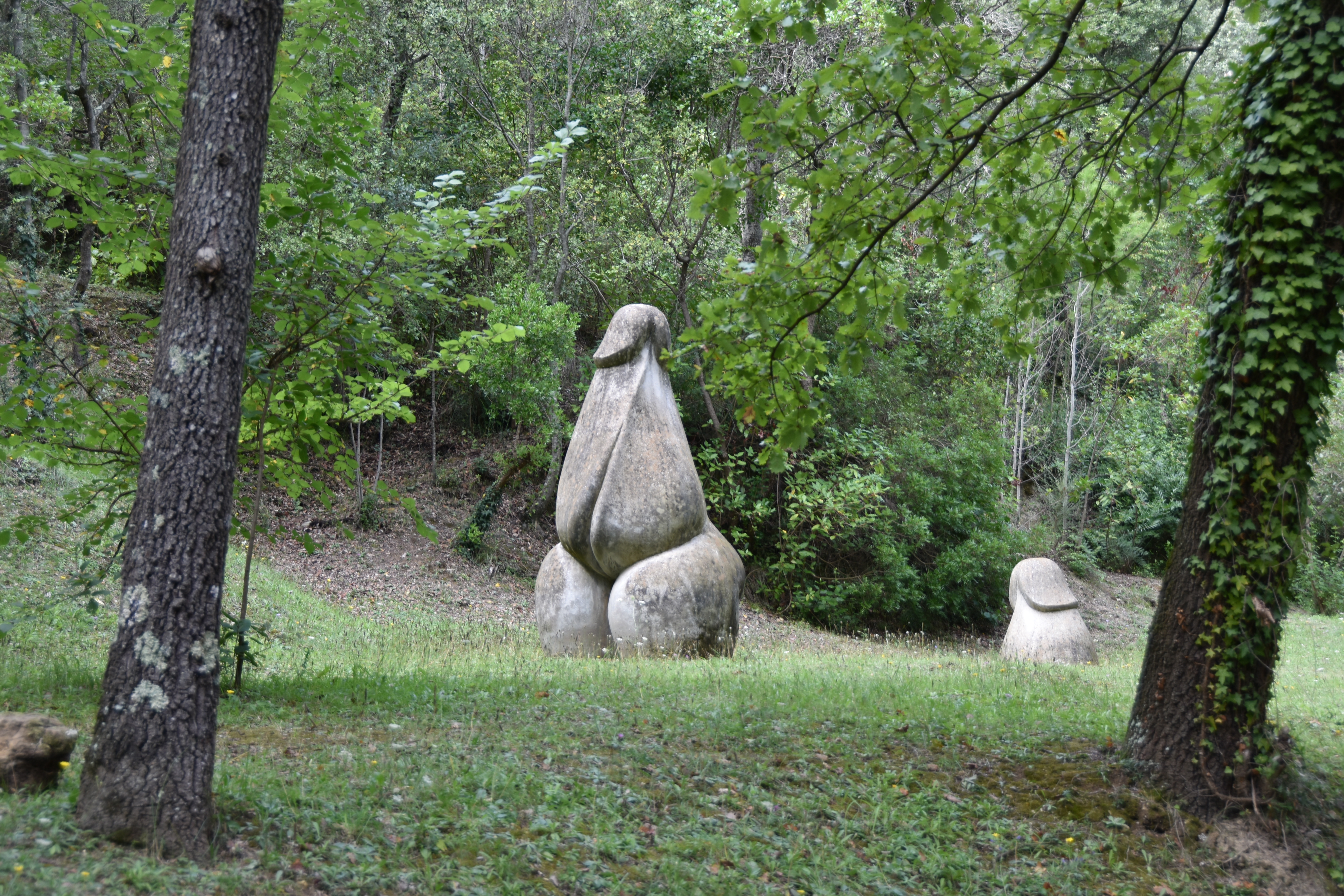 Can Ginebreda Forest (Bosc de Can Ginebreda). Sculpture park created by Xicu Cabanyes in Porqueres